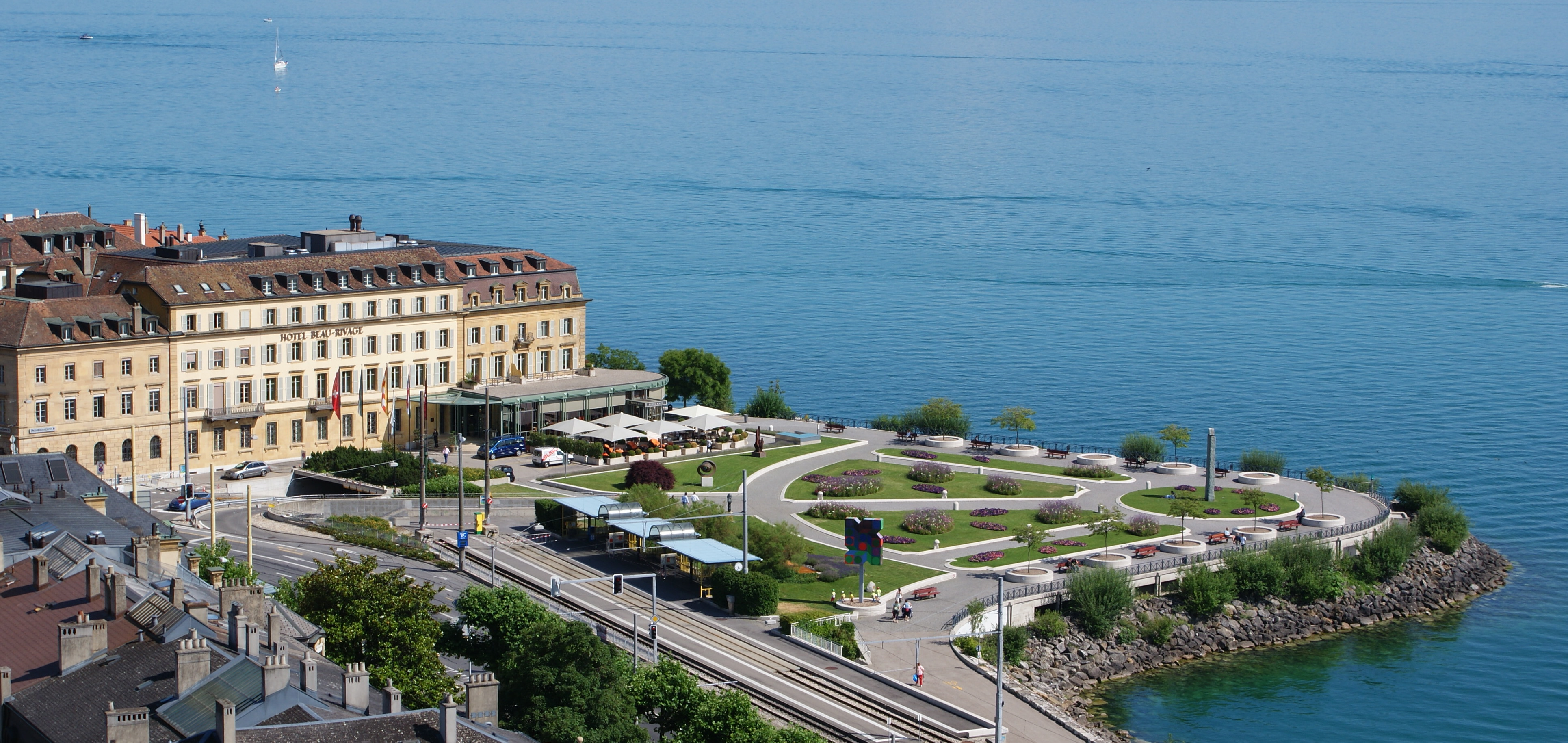 The Esplanade du Mont-Blanc and the Hôtel Beau-Rivage, seen from the prison tower.